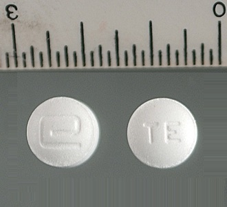 Desoxyn